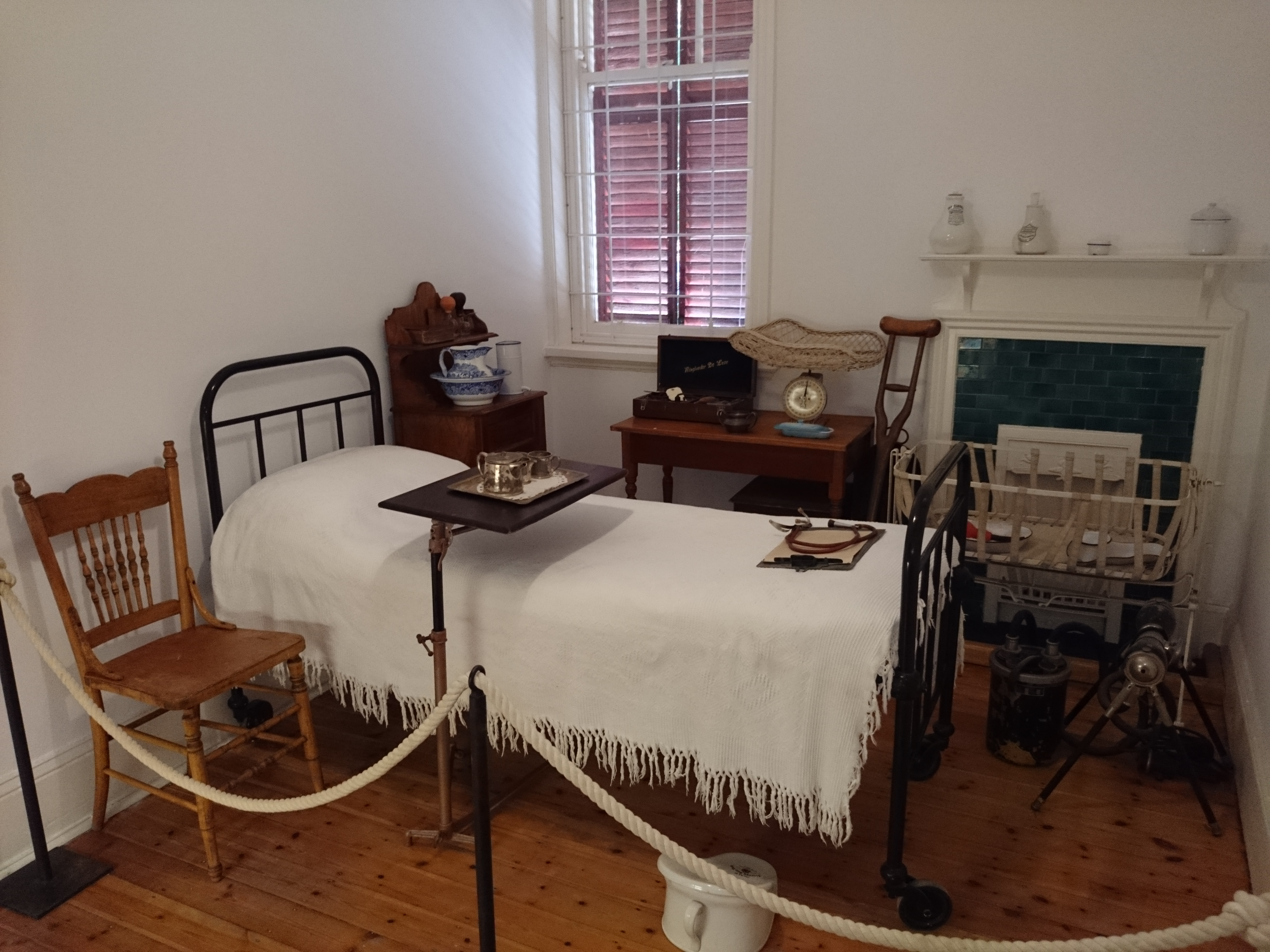 An all-in shot of the available instruments in the Hospital Ward room at the Cape Medical Museum